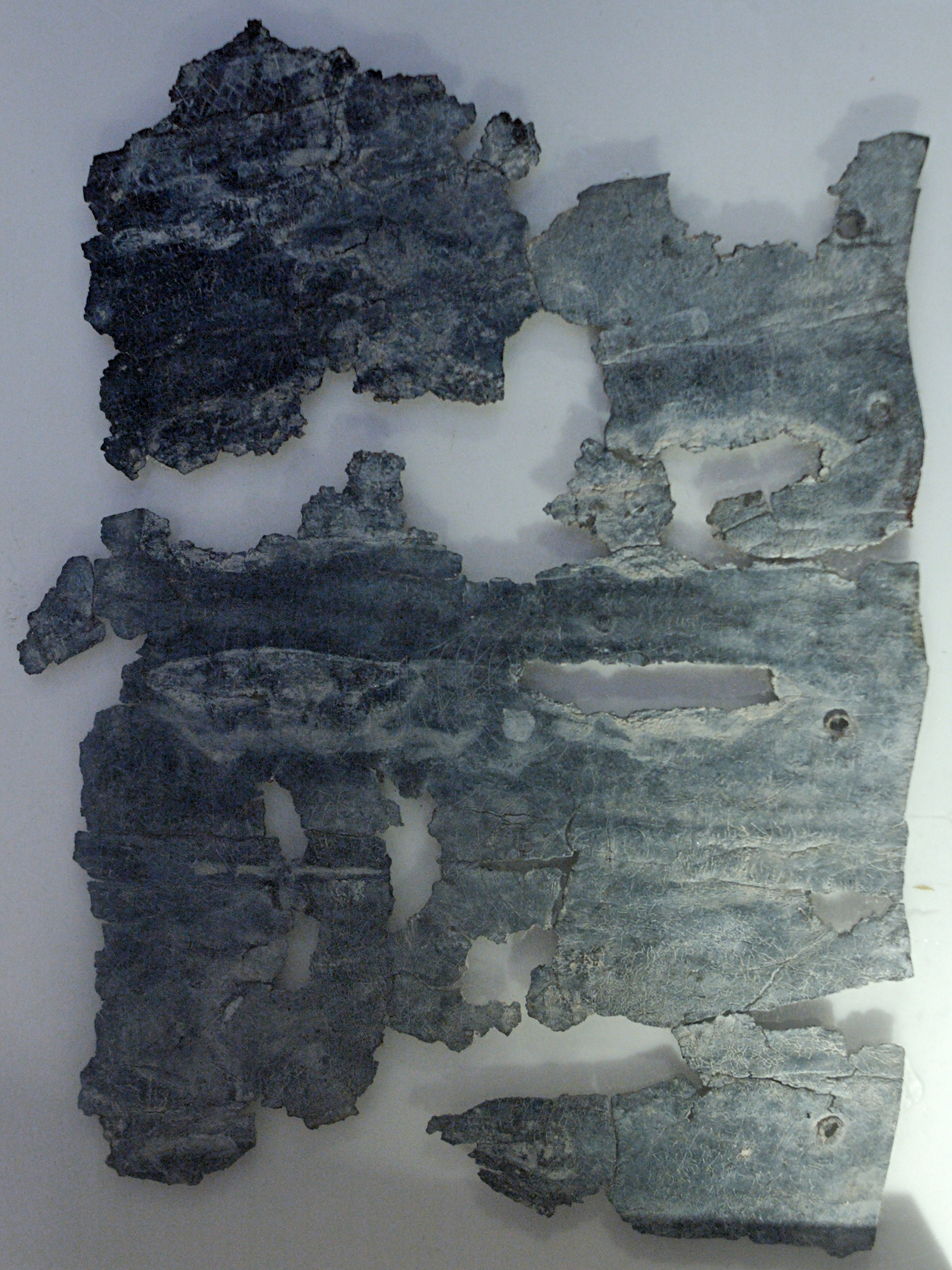 Defixio tabella with an opisthographic curse against charioteers of the circus. Lead, 4th century CE. From the via Appia, outside Porta San Sebastiano, Rome.